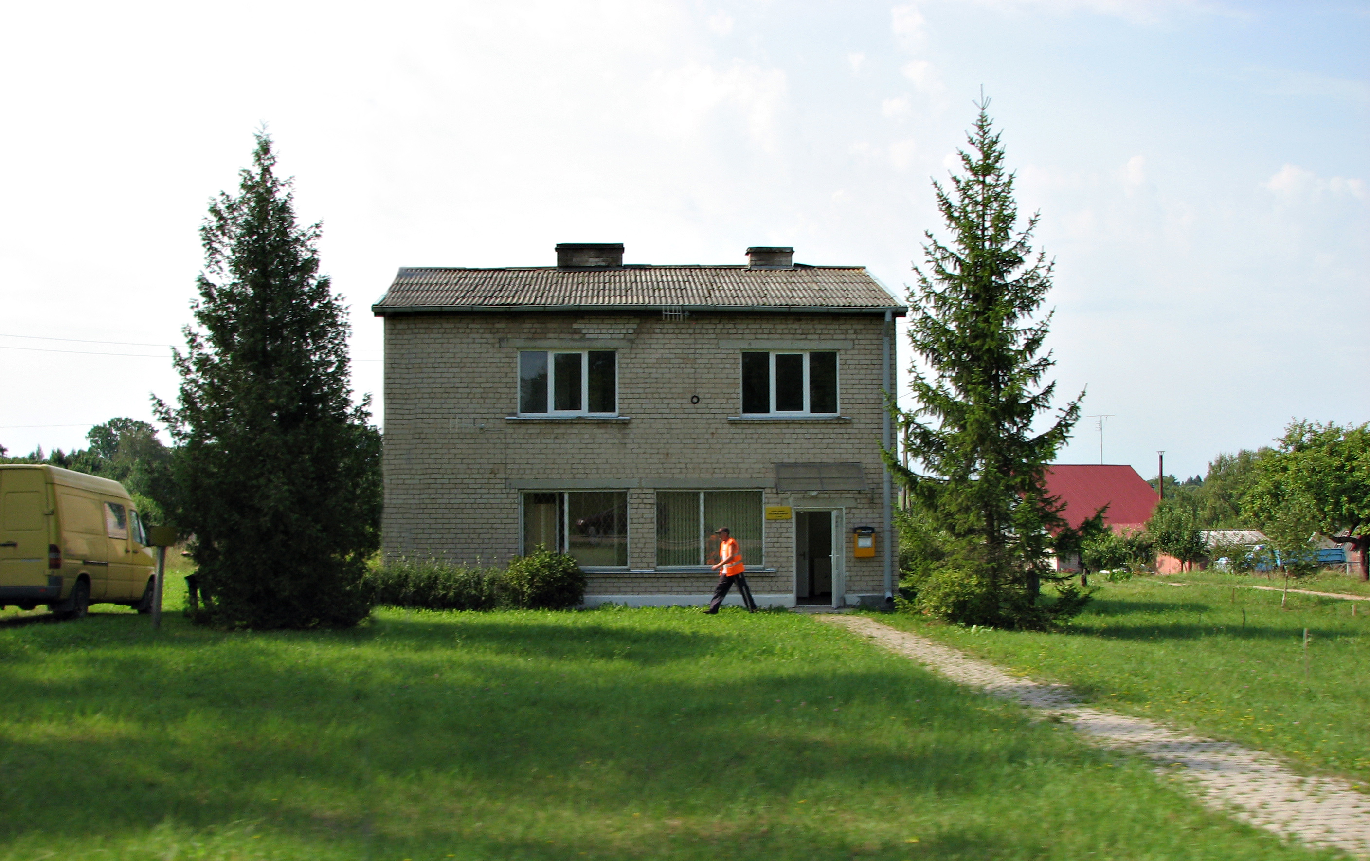 Kalnieši Post office